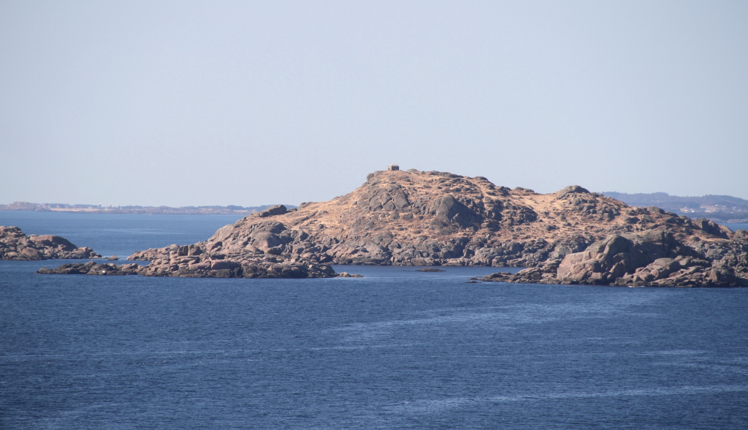 Image from Lyngdal municipality, taken from Lindesnes Lighthouse towards the west - with Grønsfjorden (Green Fjord) stretching northerly into the rocky peninsula, west of the Knarvika Bay.